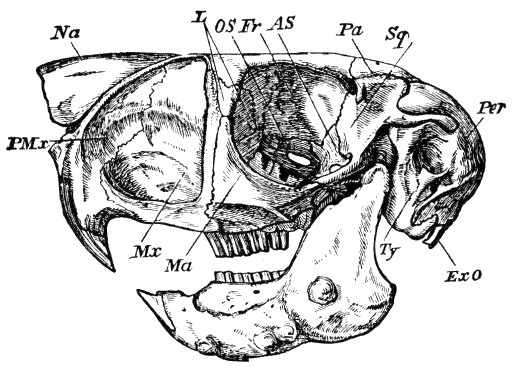 Fig. 231.—Side view of skull of Cape Jumping Hare (Pedetes caffer). × 3⁄5. AS, Alisphenoid; Ex.O, exoccipital; Fr, frontal; L, lachrymal; Ma, malar; Mx, maxilla; Na, nasal; OS, orbito-sphenoid; Pa, parietal; Per points to the large supratympanic or mastoid bulla; PMx, premaxilla; Sq, squamosal; Ty, tympanic. (From Flower's Osteology.) In MSW3, a synonym of P. capensis.